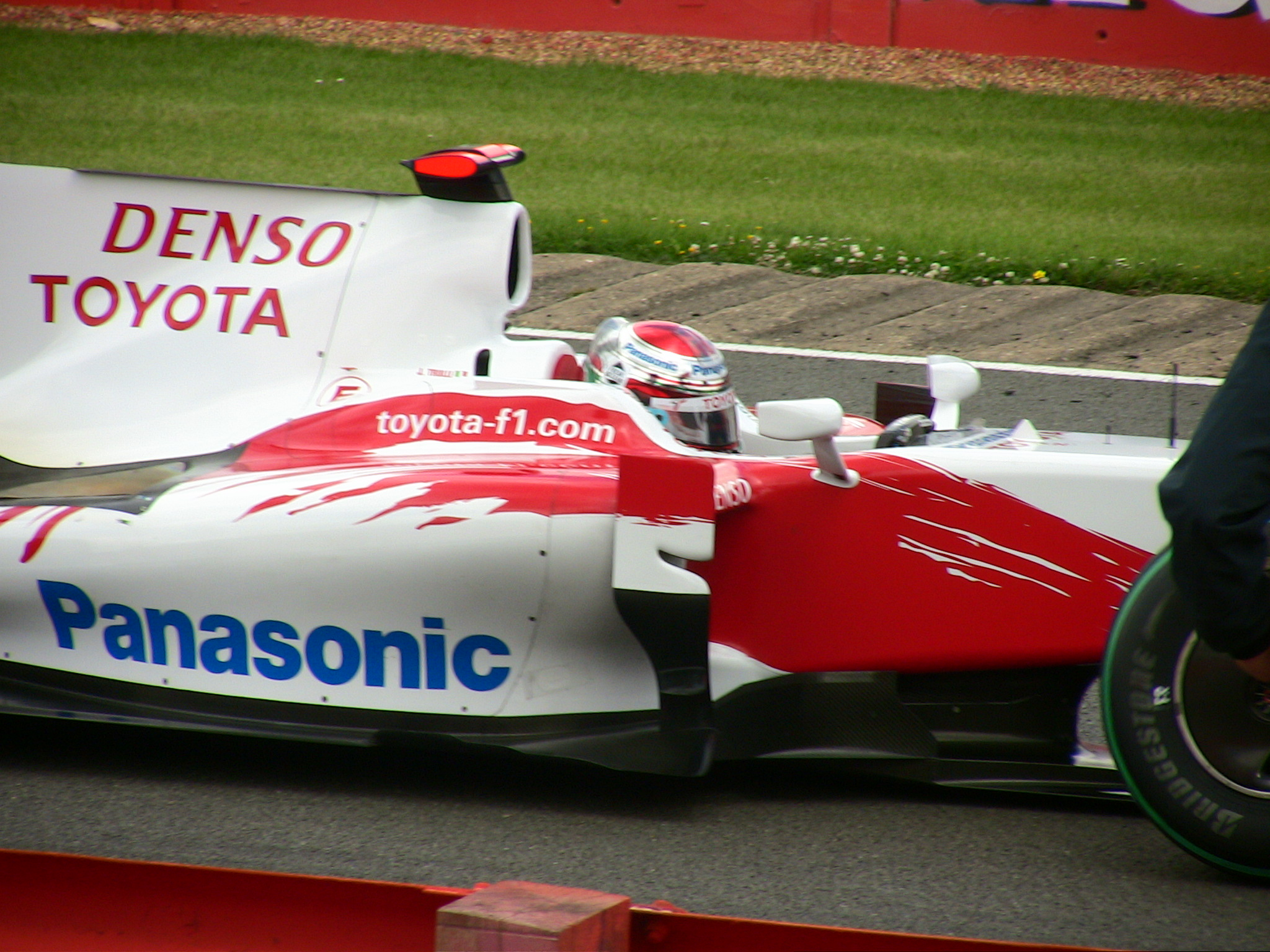 Jarno Trulli at the 2009 British Grand Prix, Silverstone, UK.